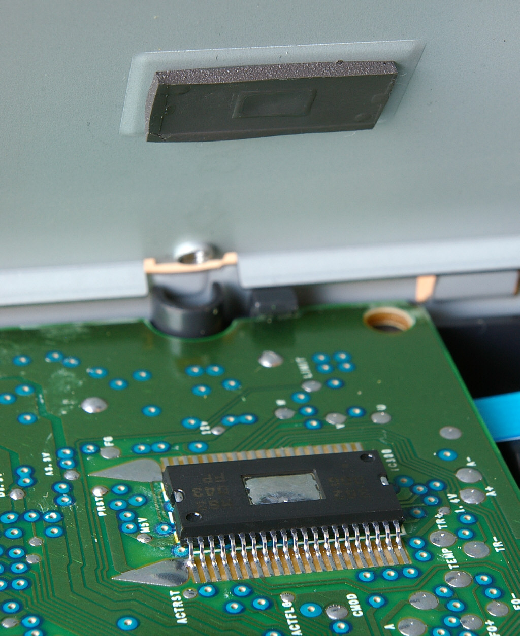 A thermal pad of about 2 mm width, used to transport the heat from an integrated circuit to the heatsink, here seen in an open CD-ROM drive.